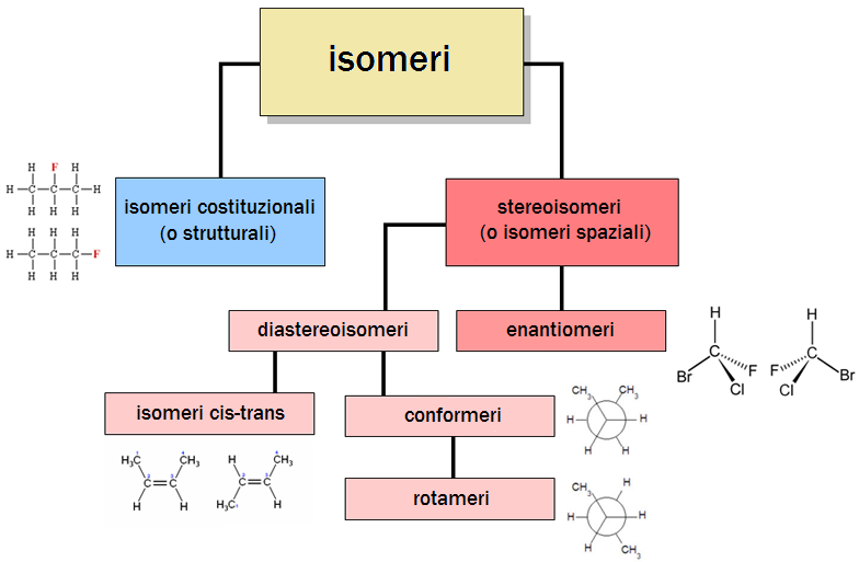 Classification of the isomers